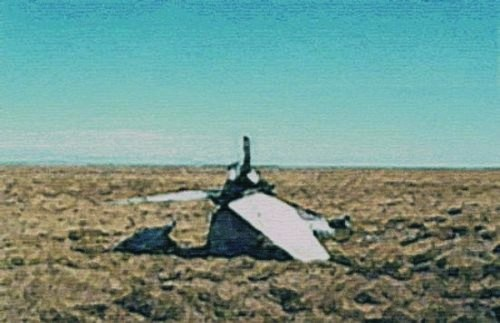 Remains of the tail of Harrier XZ998, shot down over Goose Green by 35 mm antiaircraft fire on 27 May 1982.